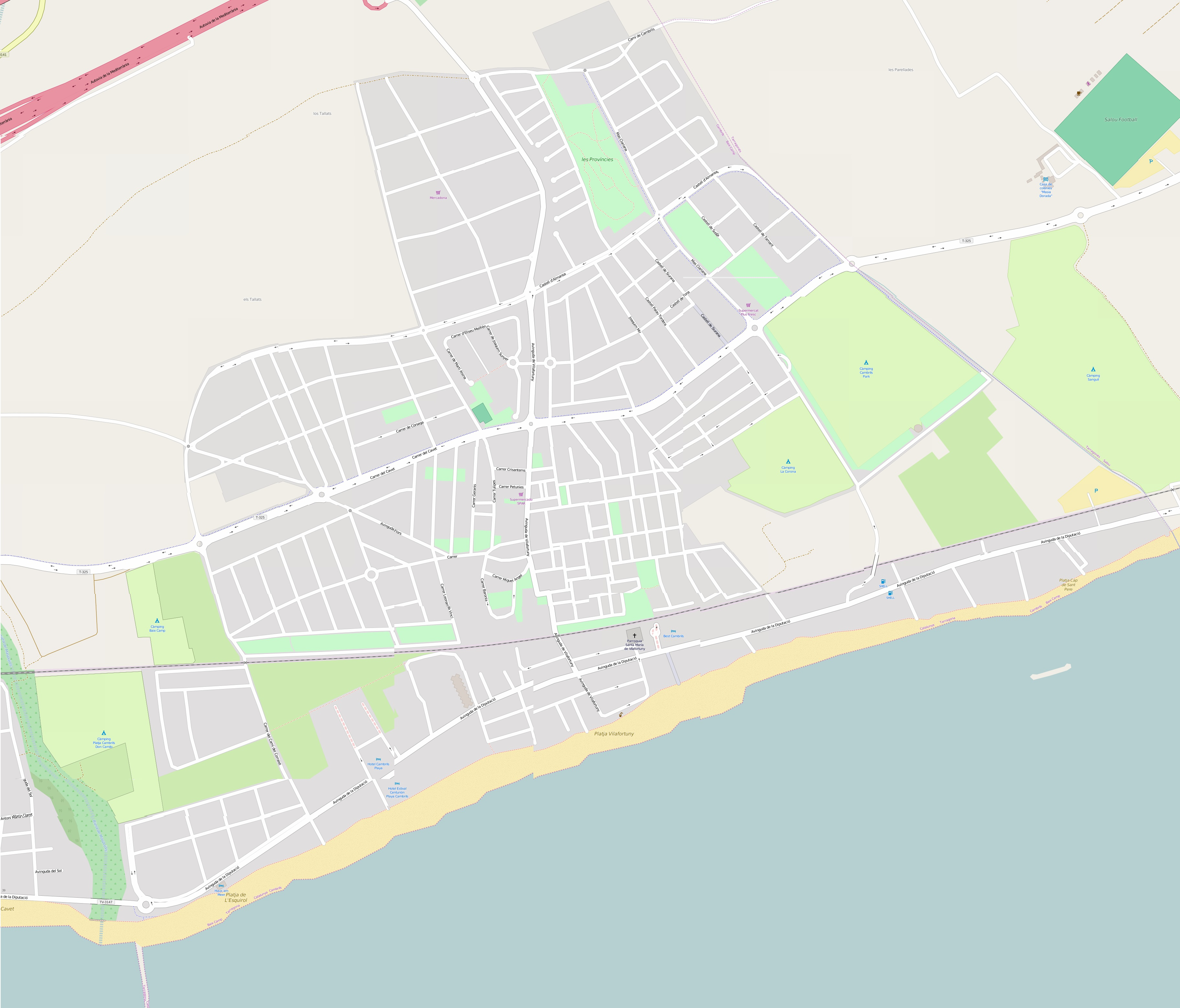 Vilafortuny map This map may be incomplete, and may contain errors. Don't rely solely on it for navigation.